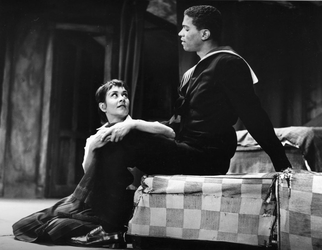 Photo of Joan Plowright as Jo and Billy Dee Williams as her sailor boy friend from the 1960 Broadway production of A Taste of Honey.